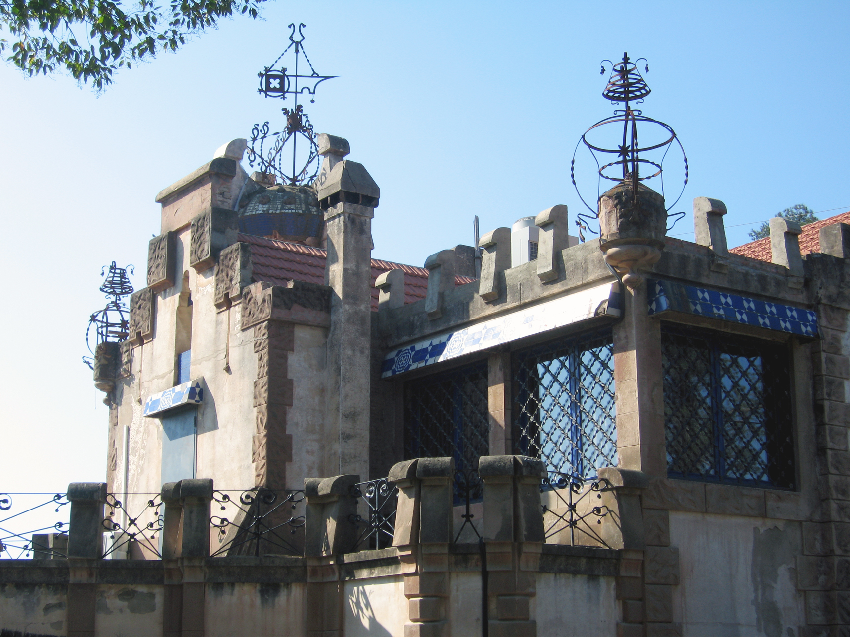 Casa Lluch or Vasconcel in Sant Cugat del Vallès (Catalonia).